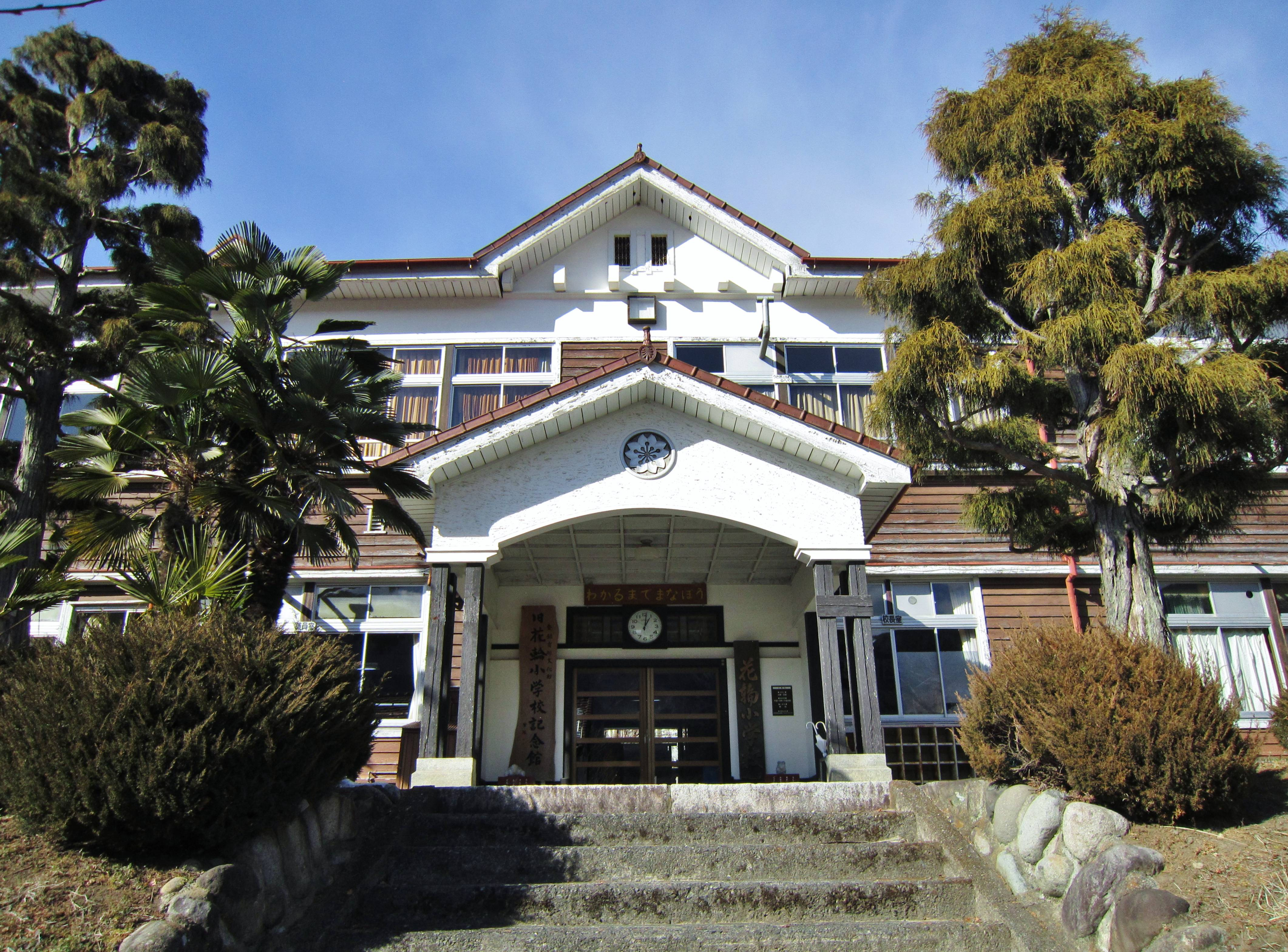 Former Hanawa elementary school.